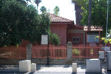 Aaronsohn's house in Zikhron Ya'aqov